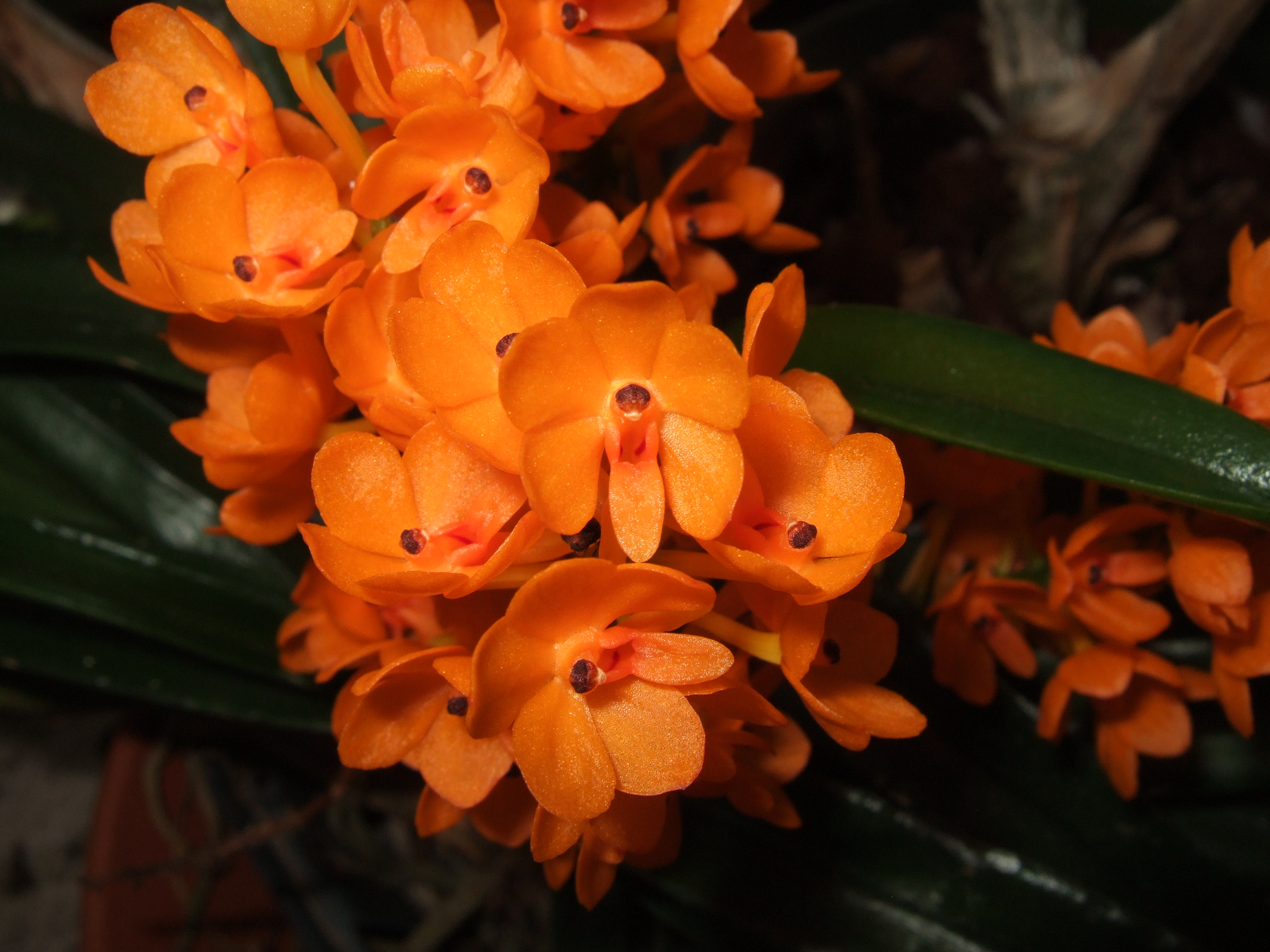 Vanda garayi, flower